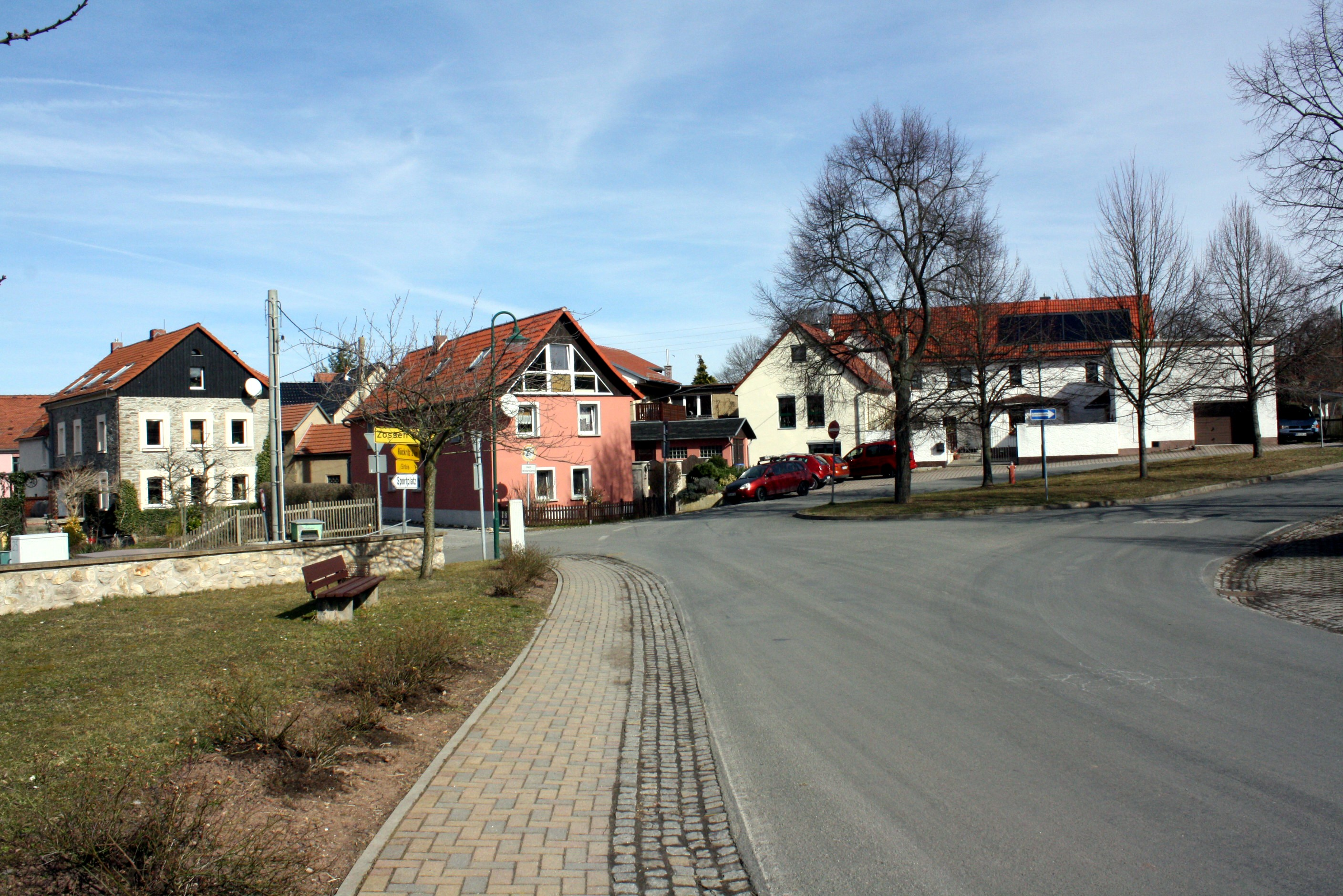 View into Crimla near Gera/Thuringia